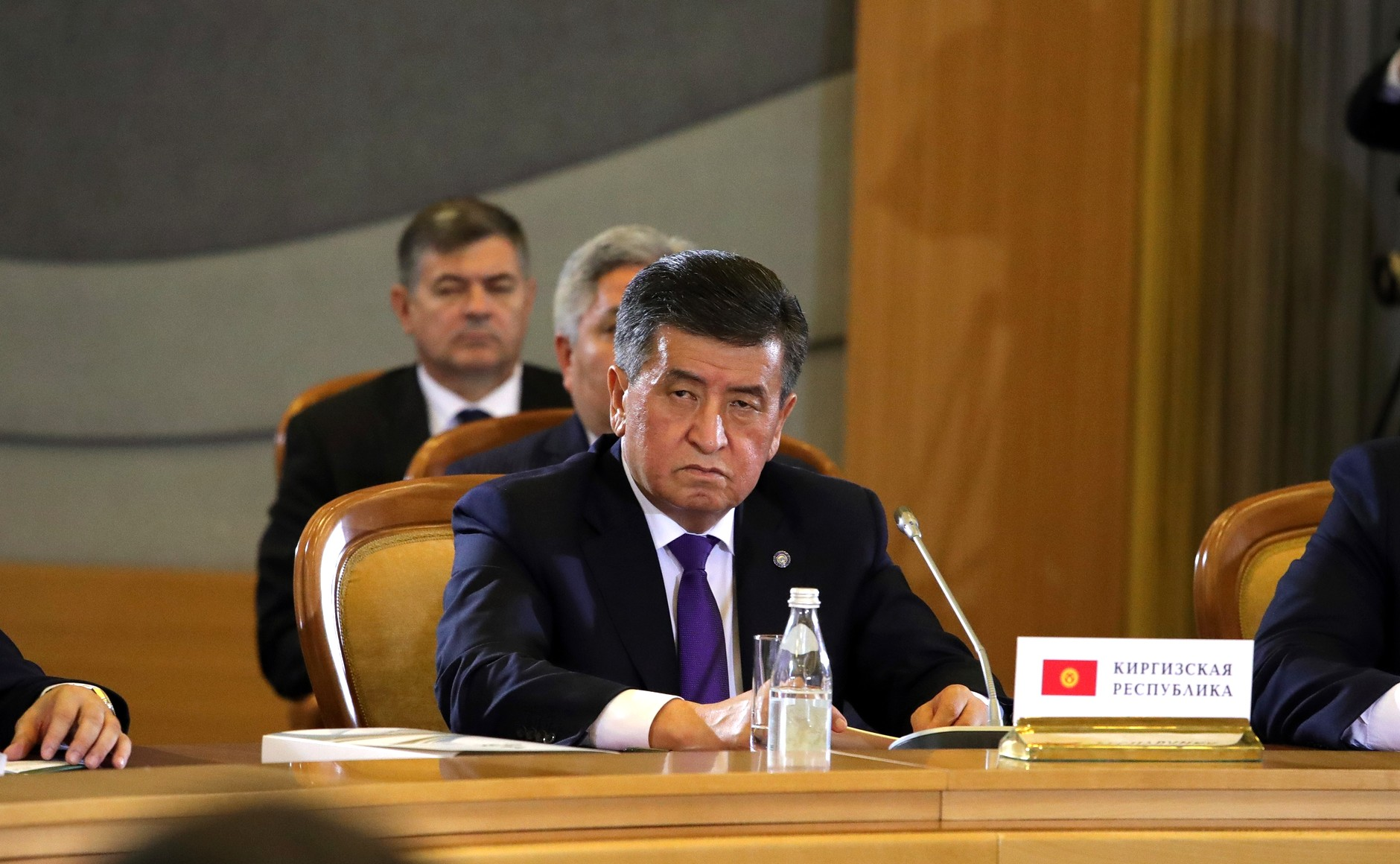 President of the Kyrgyz Republic Sooronbay Jeenbekov at the Supreme Eurasian Economic Council meeting in expanded format.